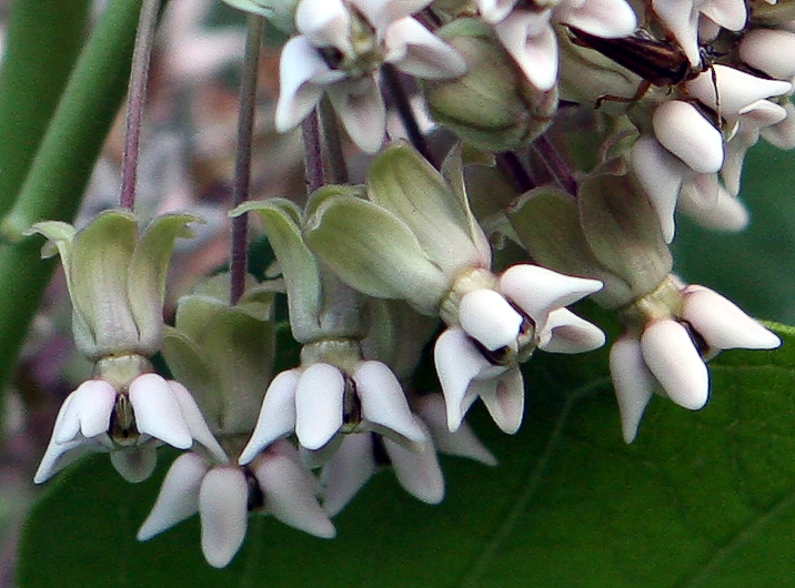 Self made picture of Asclepia_syriaca flowers,take summer 2008